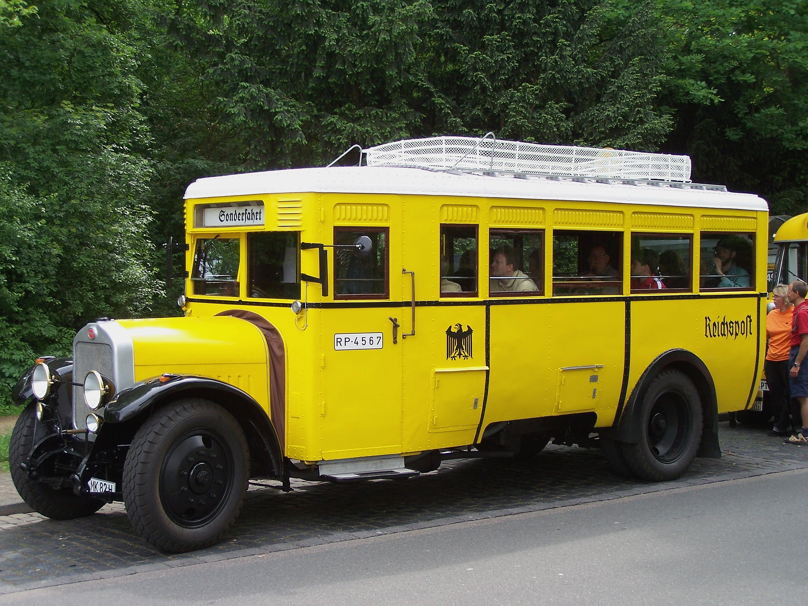 Historical post bus manufactured by DAAG in 1925 on an extra tour in Frankfurt am Main--Schwanheim